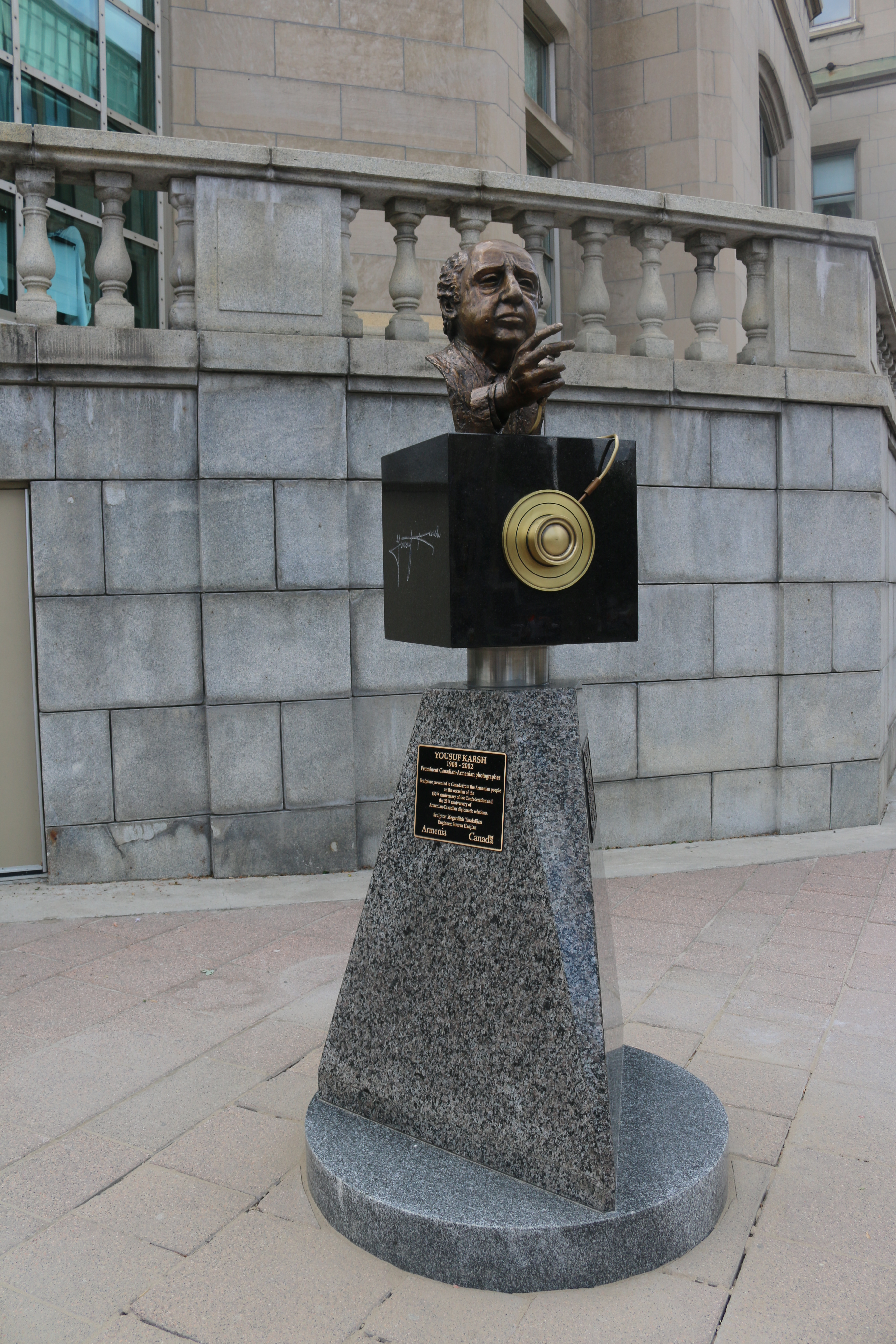 Bust of world renowned Armenian-Canadian photographer, Yousuf Karsh in Ottawa